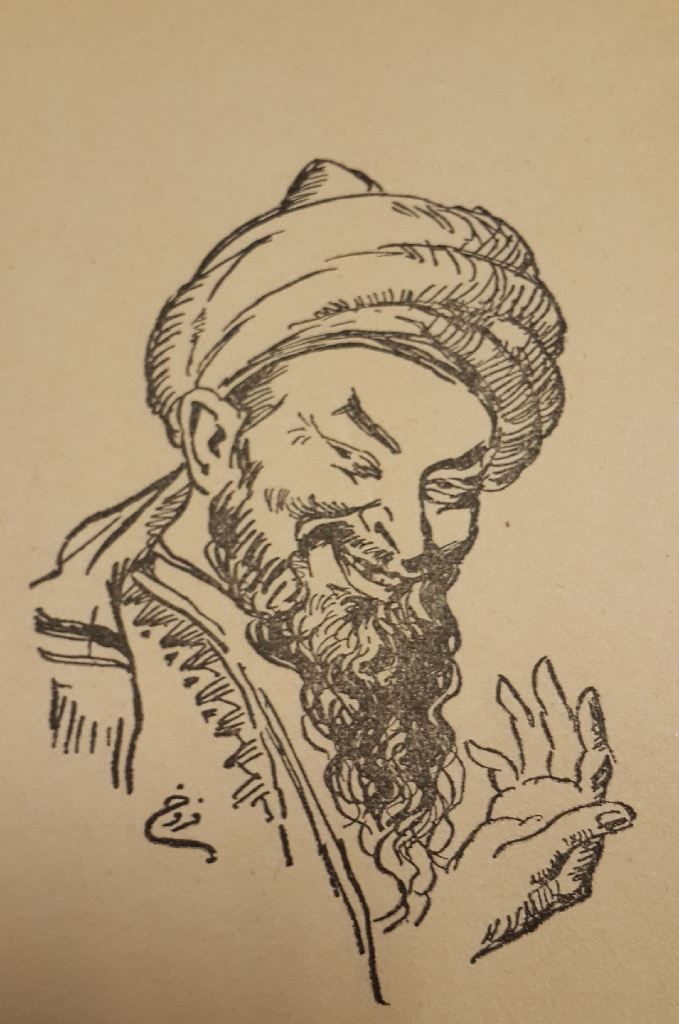 A Drawing for poet Abū Nuwās, by writer and artist Omar Farroukh